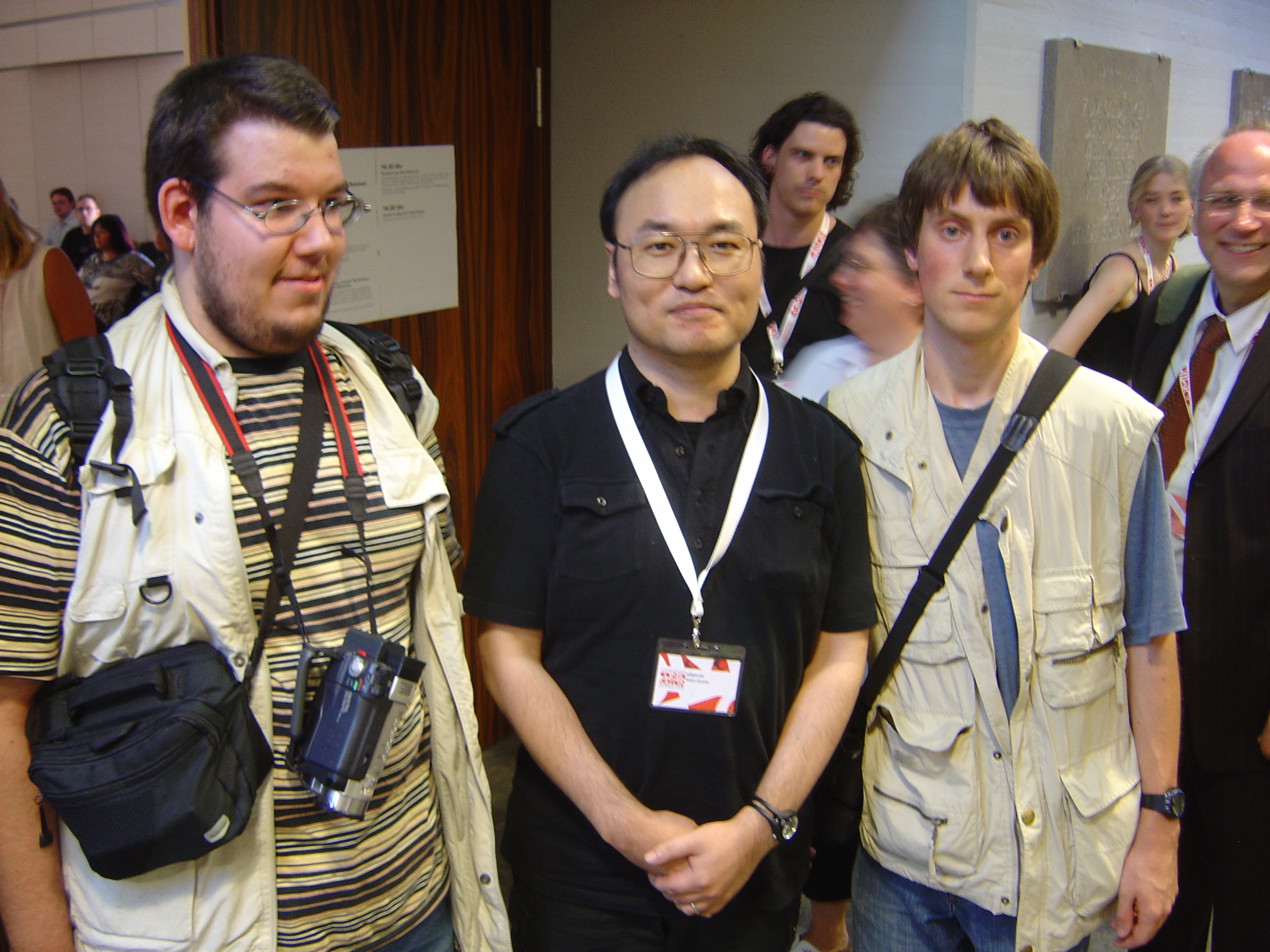 Gosho Aoyama, the creator of Case Closed (Detective Conan), with 2 fans.